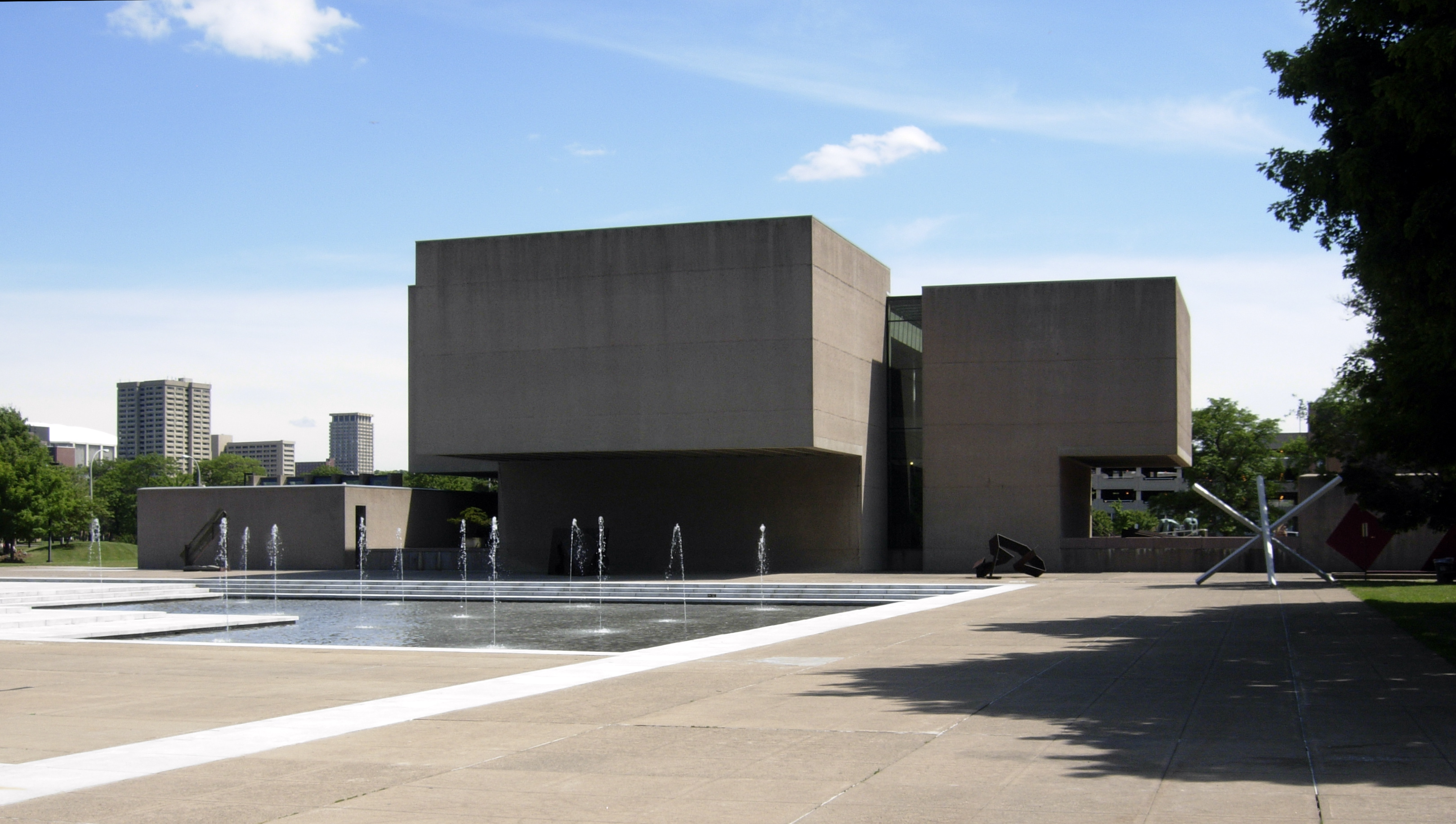 Back of the Everson Museum, Syracuse, NY